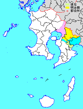 Location Map of Osaki in Kagoshima Prefecture, Japan